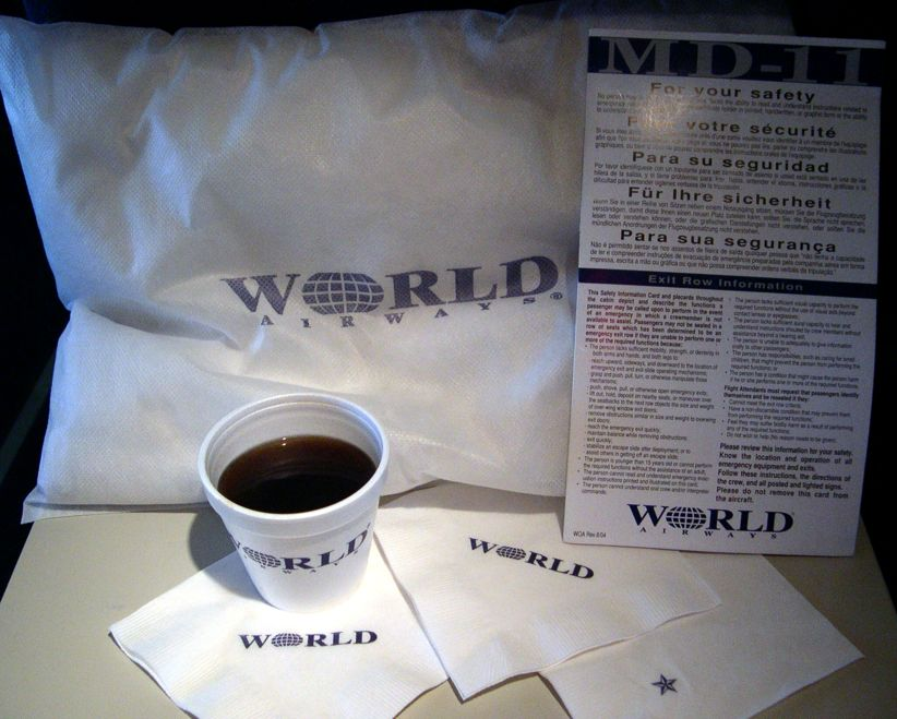 View from a seat on a World Airways MD11 flight to Kyrgyzstan (October 2005). Photo by Peter Rimar.